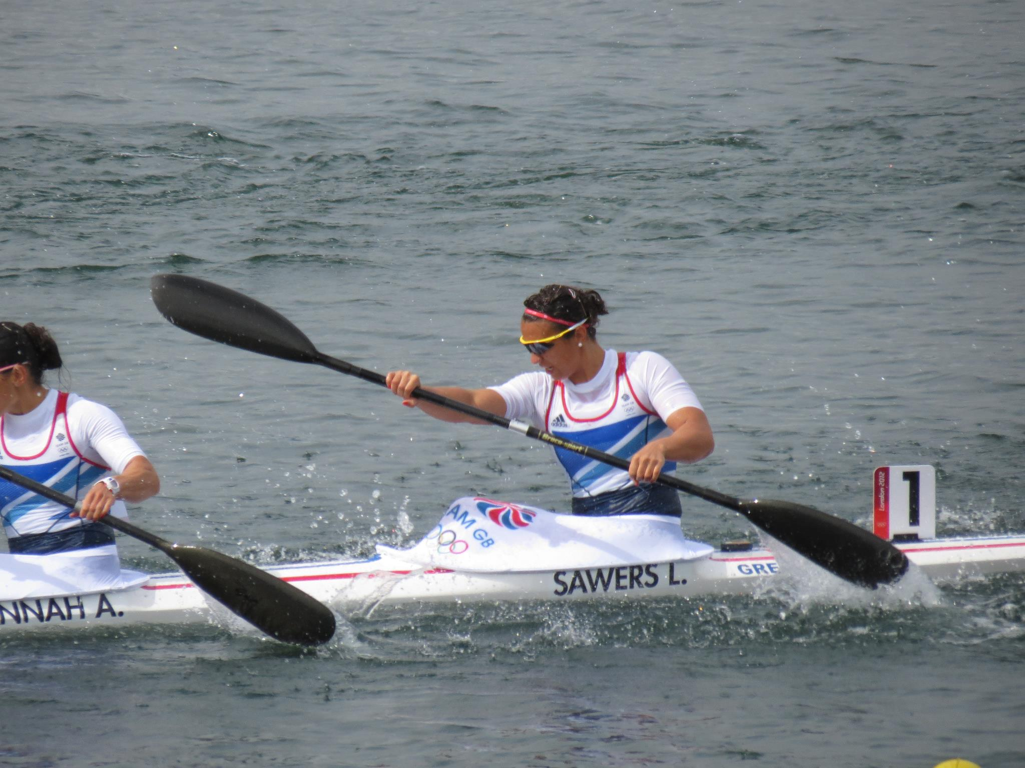 Louisa Sawers London 2012 Olympic Womens K4 500m Final